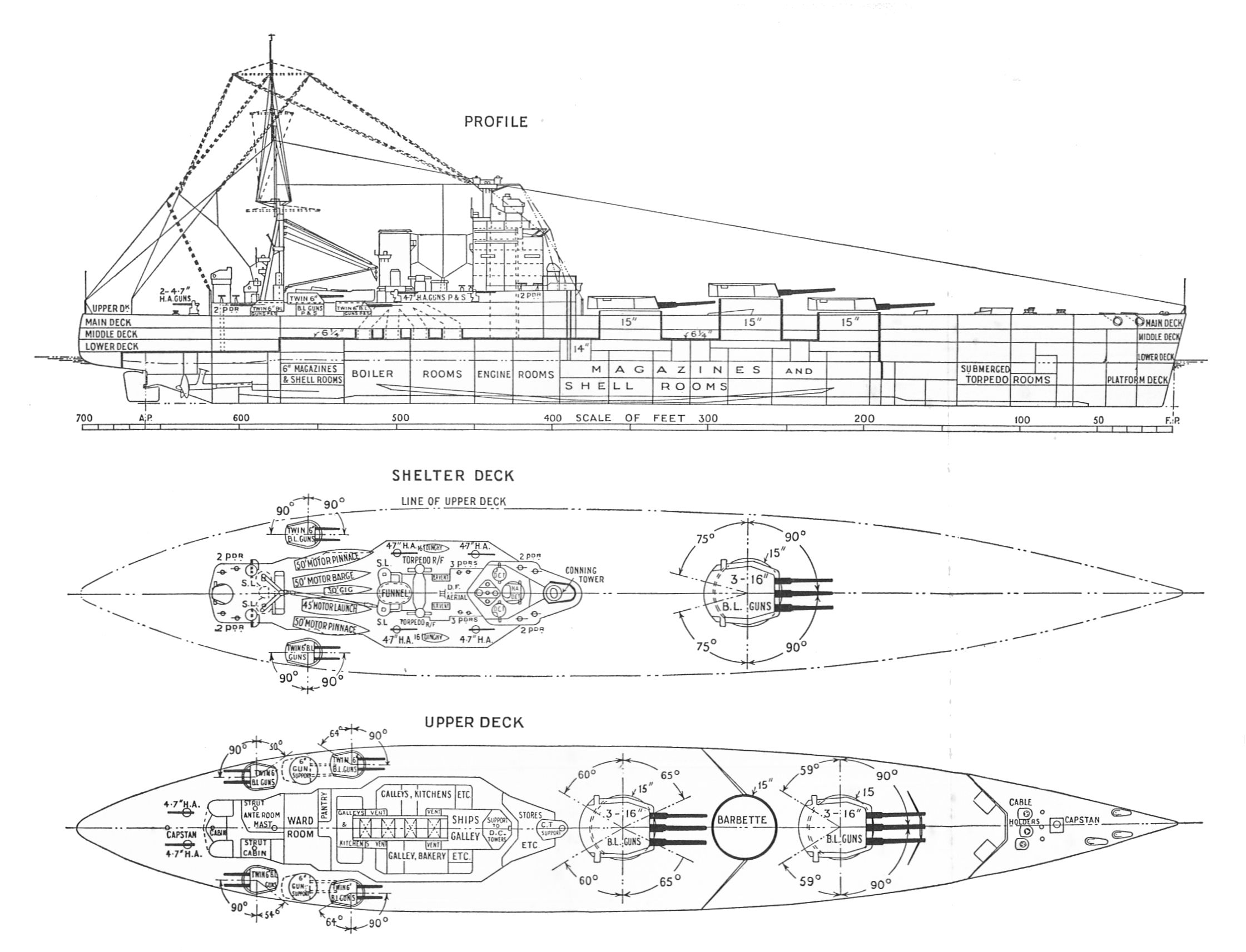 HMS Nelson